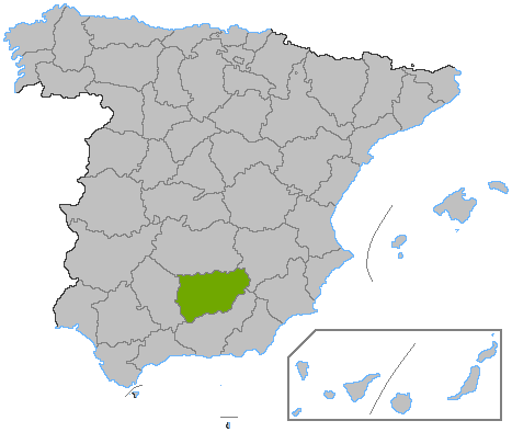 Location of the province of Jaén, in Spain.